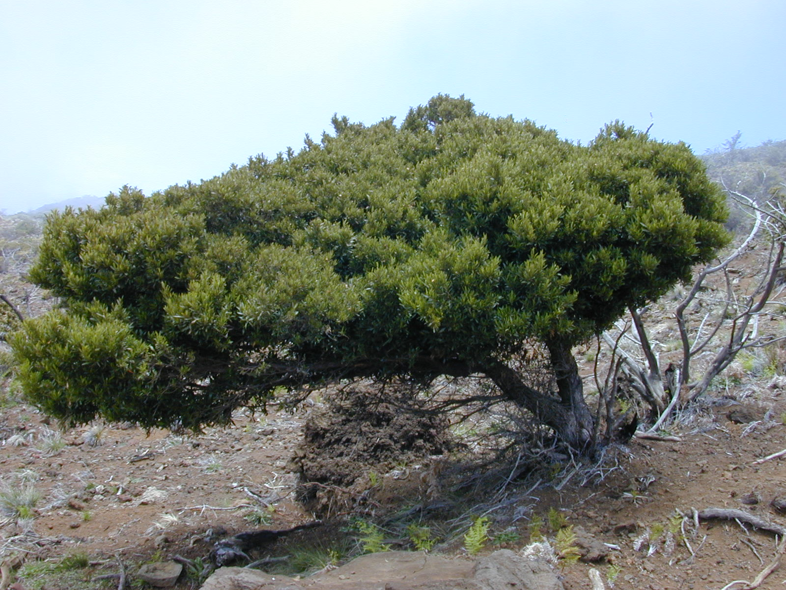 Dodonaea viscosa (browsed habit). Location: Maui, Polipoli